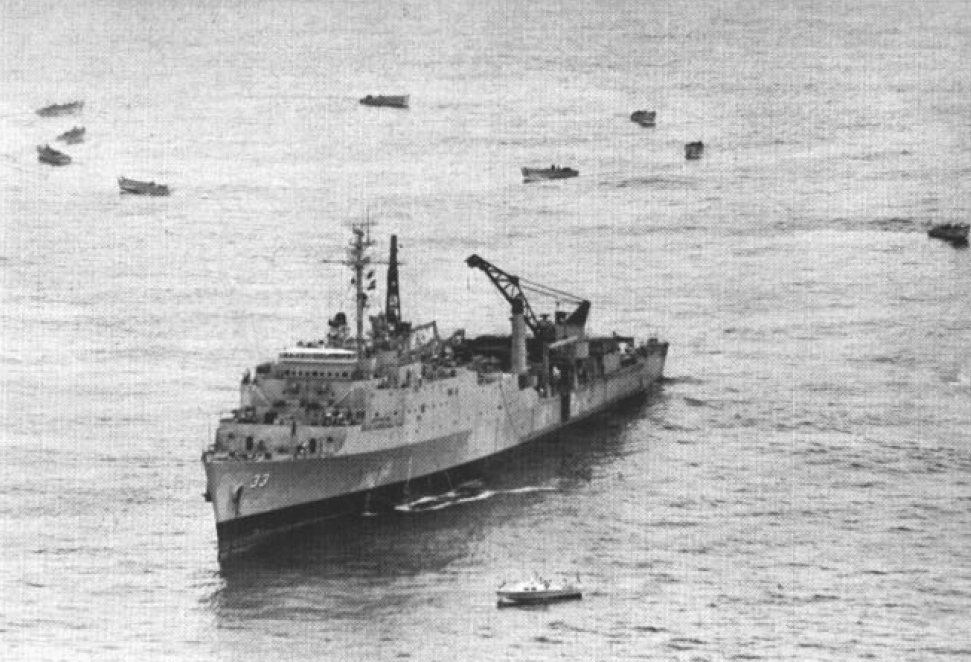 Landing craft circle the U.S. Navy dock landing ship USS Alamo (LSD-33) in preparation for ana amphibious landing during "Operation Deckhouse II" in Vietnam, July 1966.